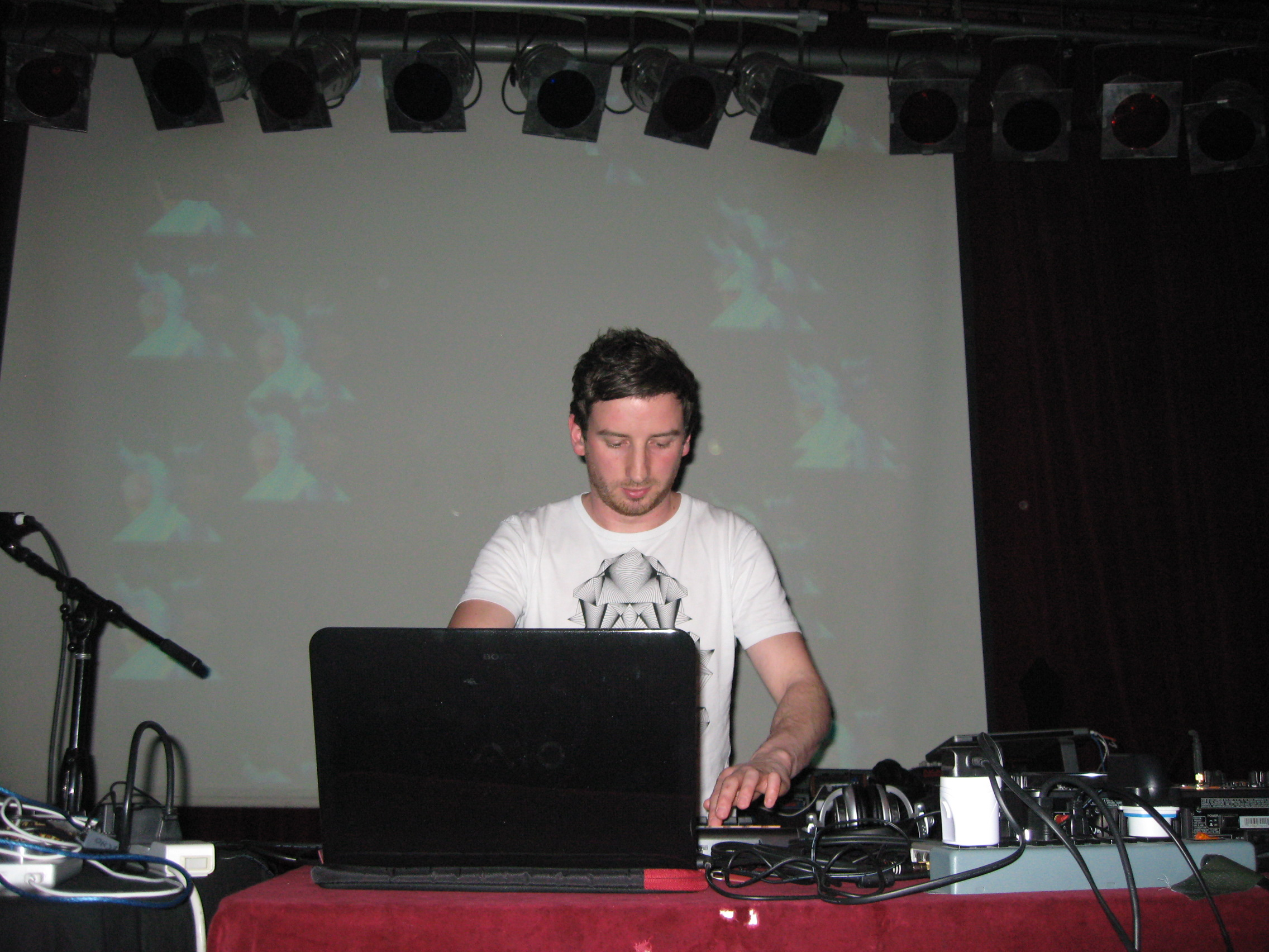 October 4, 2011